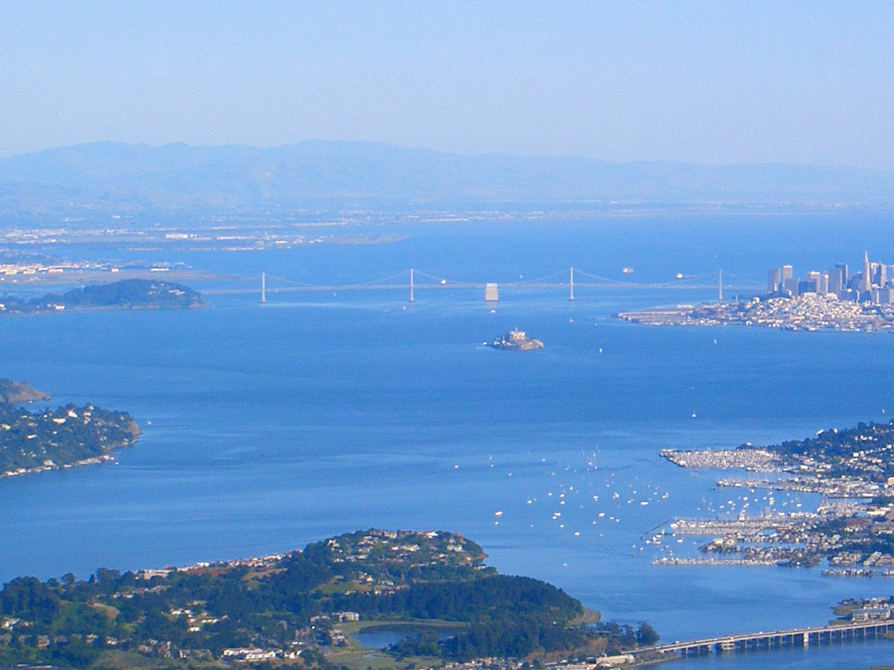 San Francisco Bay, from Marin County: Bay Bridge